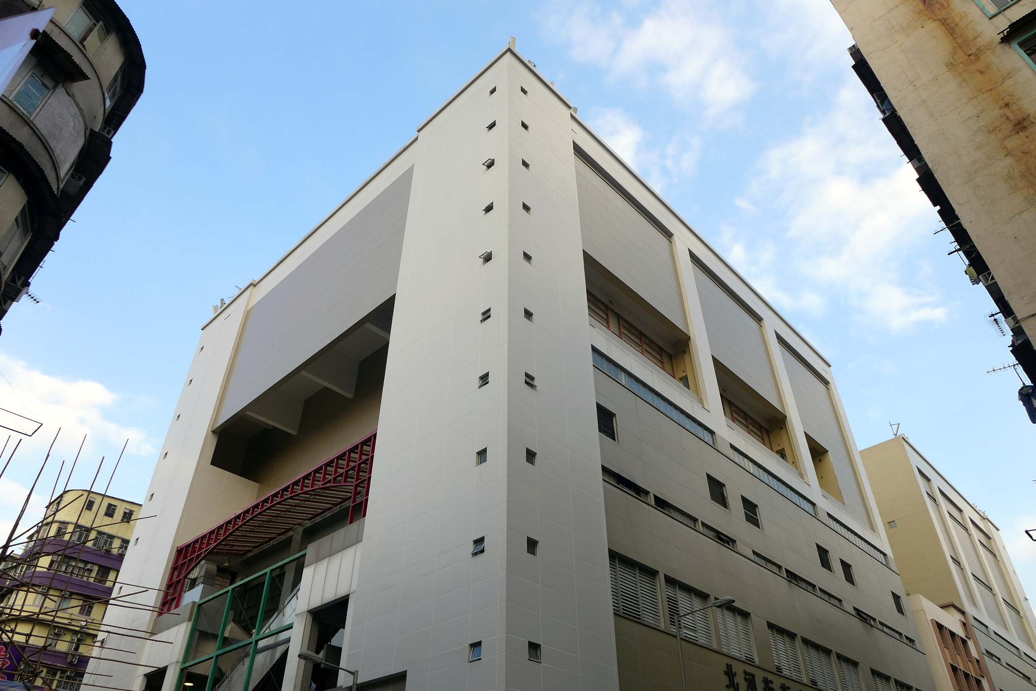 Pei Ho Street Municipal Services Building